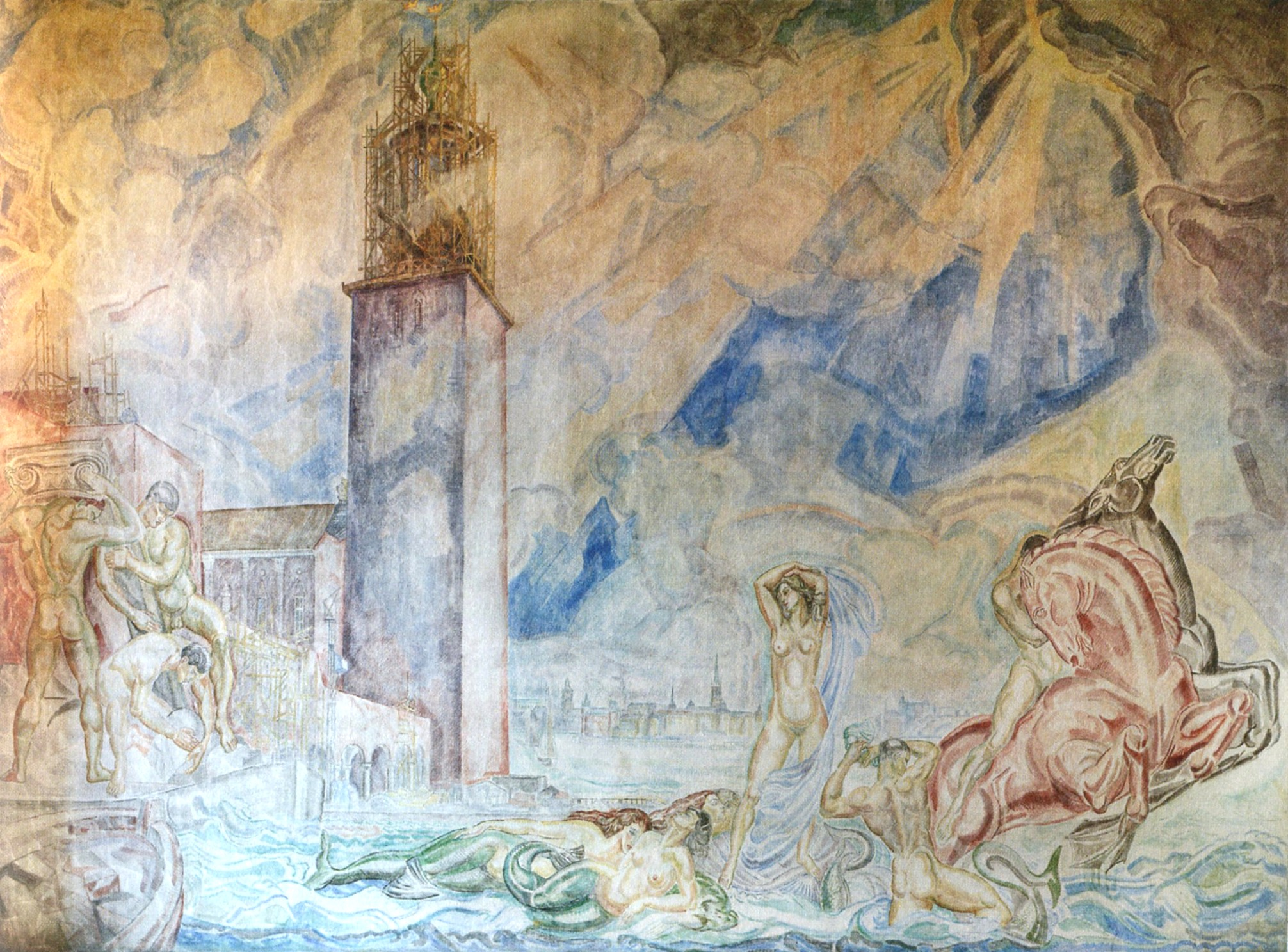 Postcard: City Hall - artist: Axel Törneman